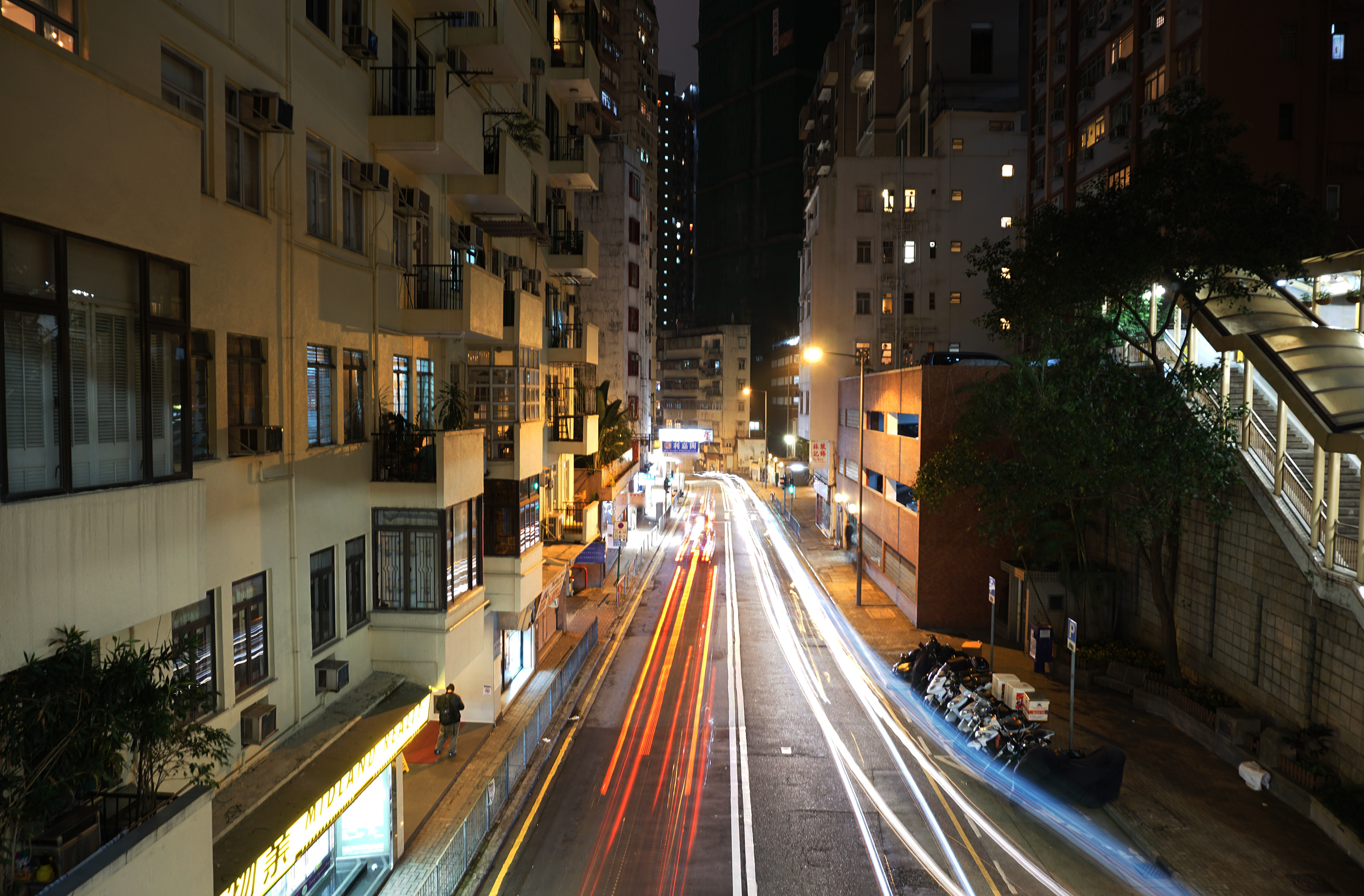 Robinson Road in Mid-Levels, Hong Kong.